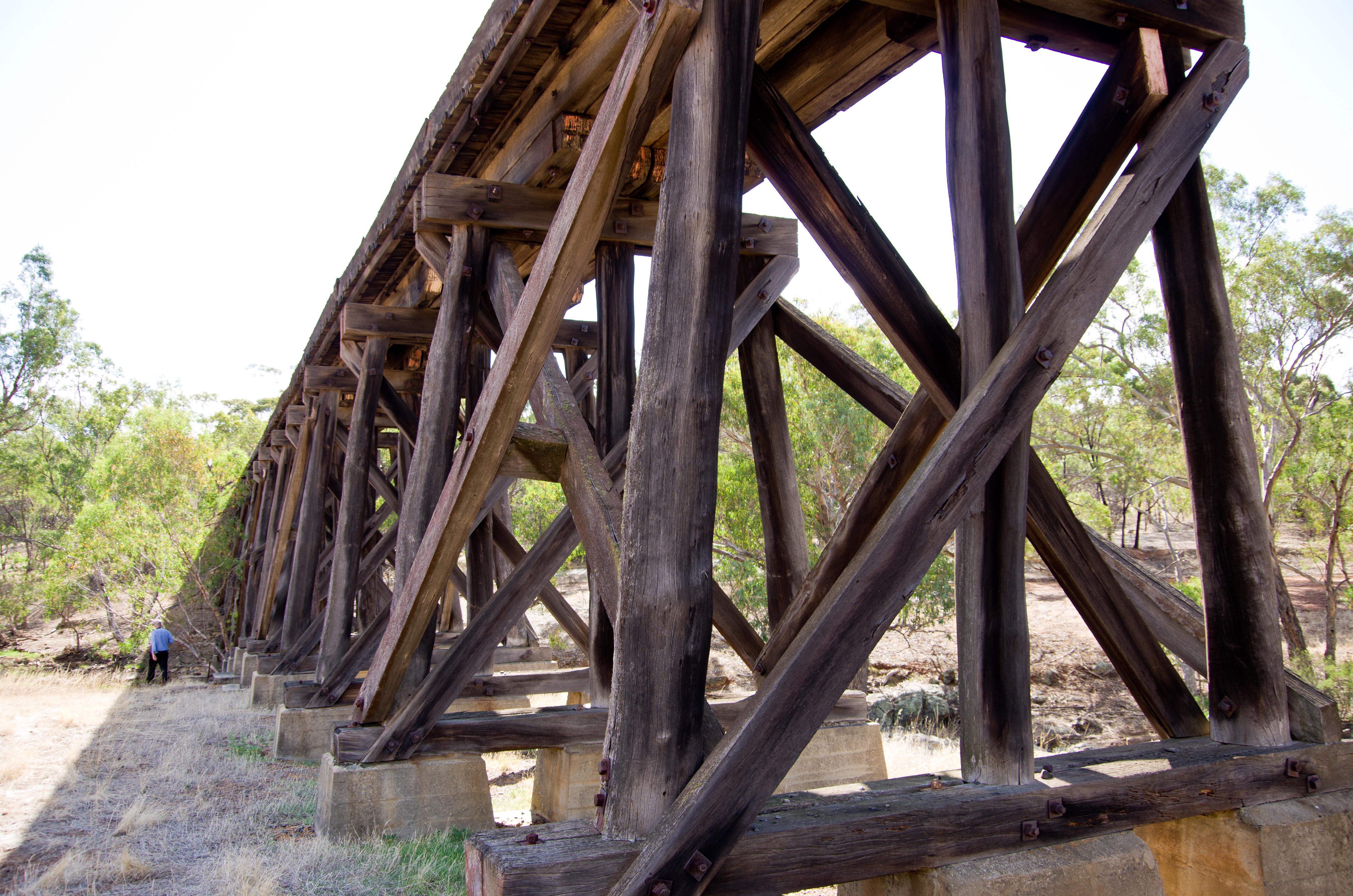 Coorinja winery Ringa Bridge